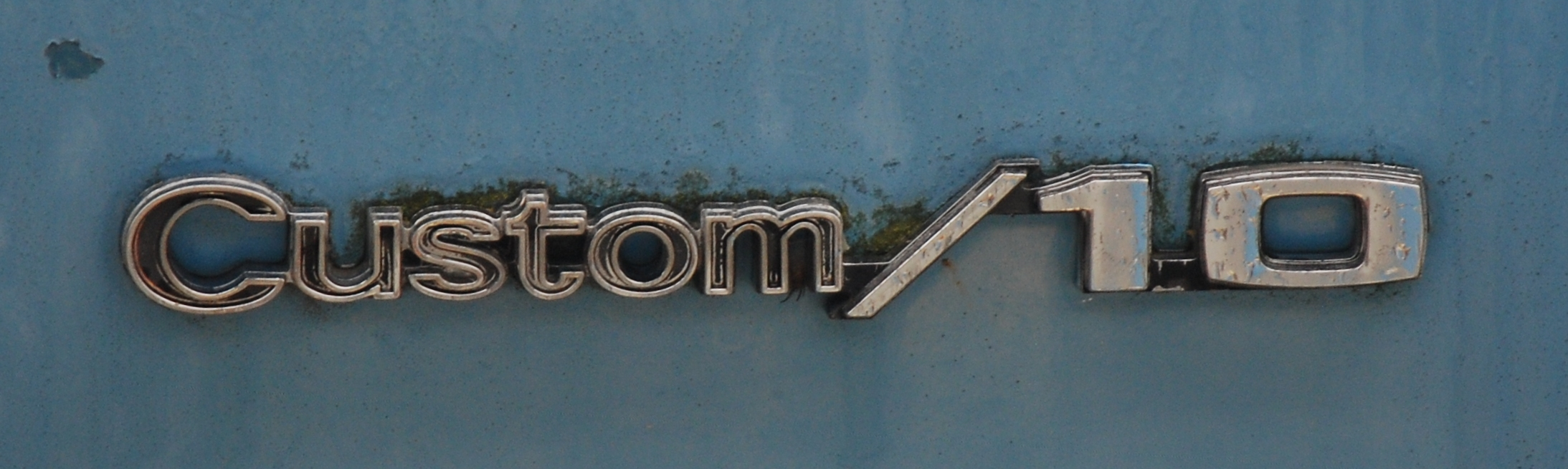 Badge of Chevy Suburbans C10 350